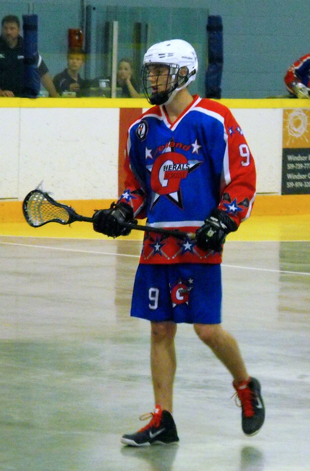 These images of Ontario Junior B Lacrosse Action action during the 2014 season are taken by Devan Mighton.